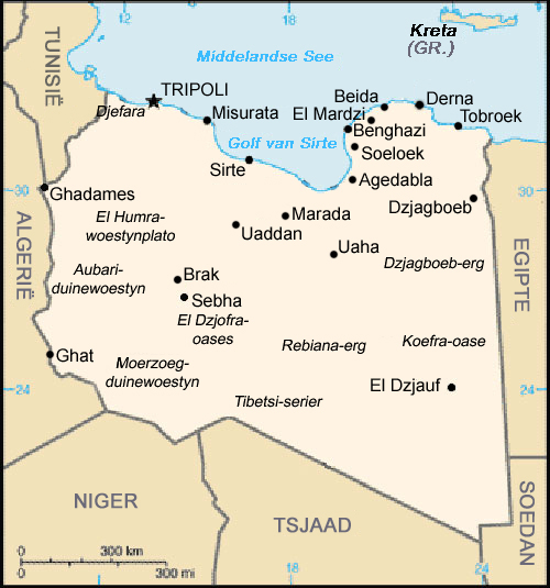 An Afrikaans map of Libya.